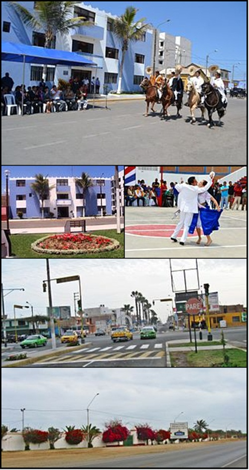 PhotomontageBuenosAiresTrujillo